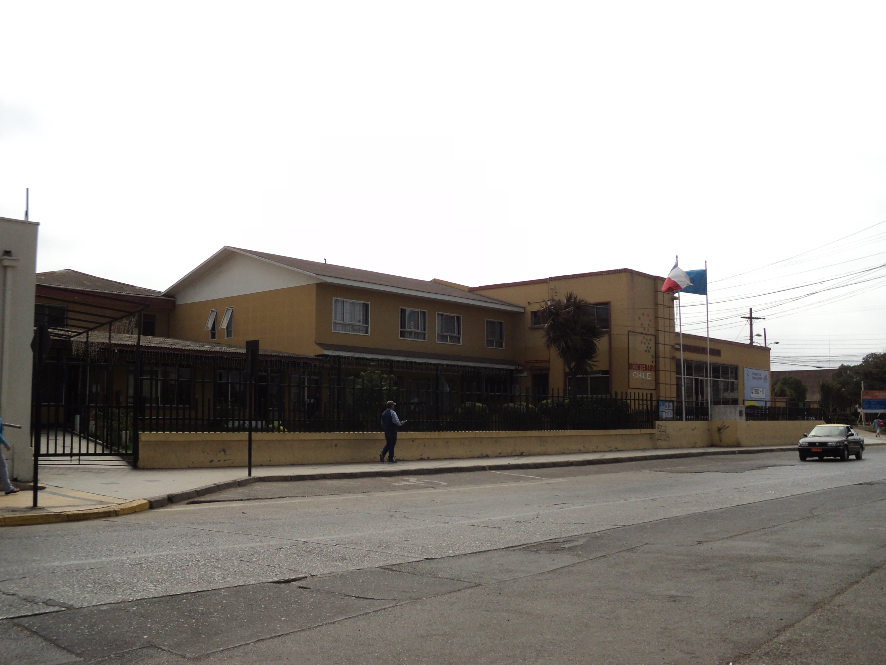 Facade of the Illustrious Municipality of Quintero